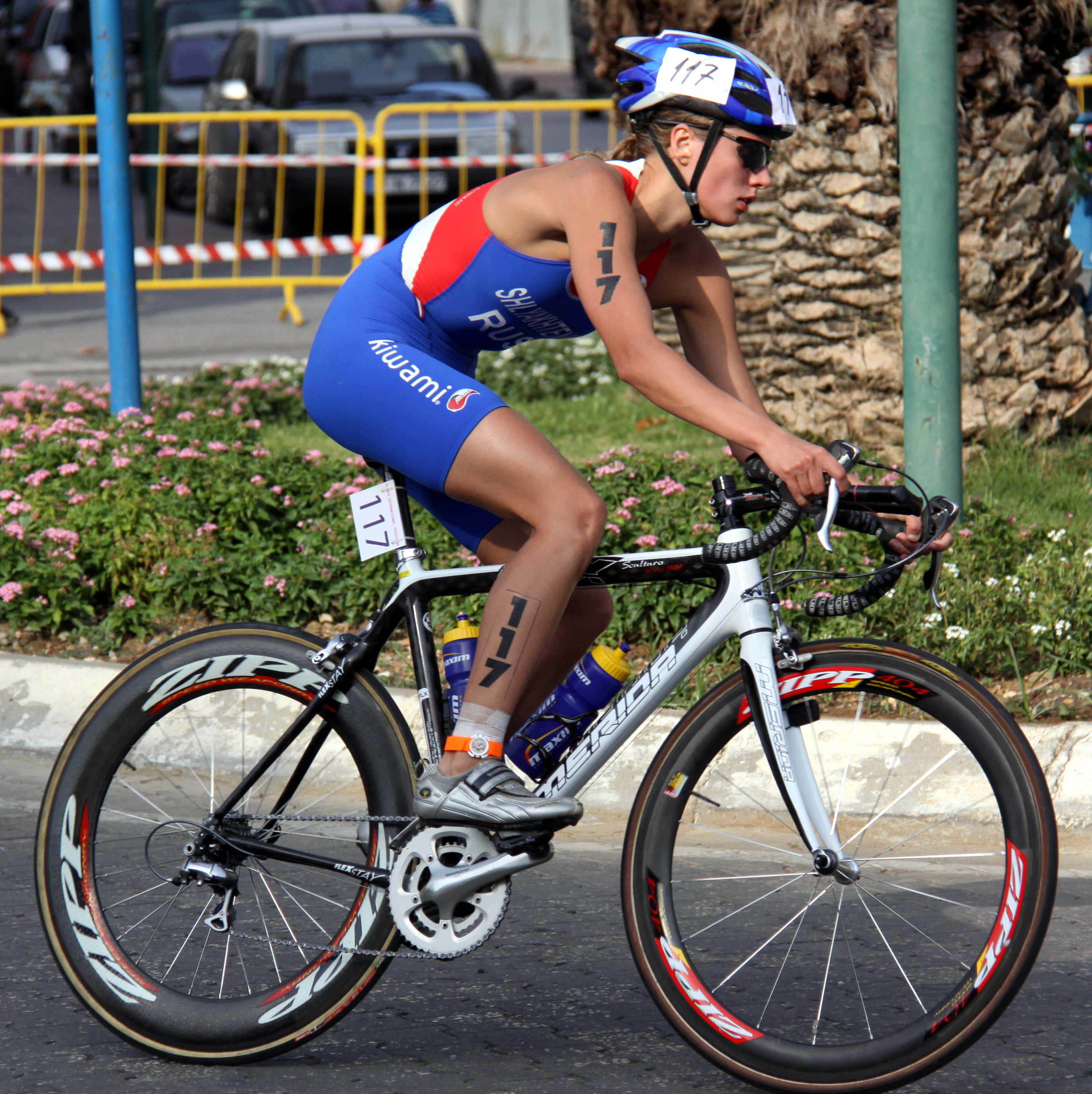 Natalya Shlyakhtenko Shliakhtenko Наталья Шляхтенко Triathlon Alanya 2009